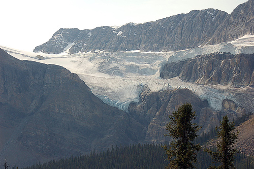 Crowfoot Glacier